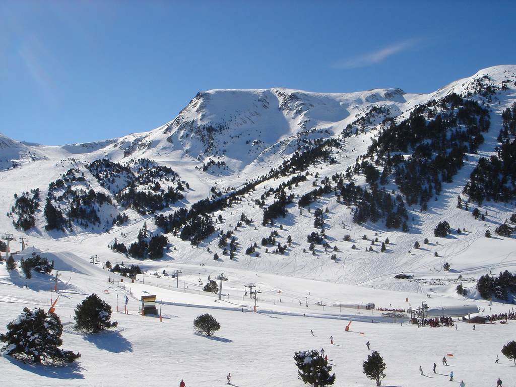 Andorra February 2006. Unidentified location in one of the Grandvalira ski resorts. Possibly the Riba Escorxada zone of Soldeu, looking towards "Snowpark Freestyle Academy" and the red runs Esparver, Mussol, and Tamarro.